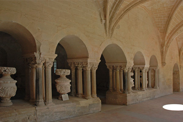 Valmagne abbey. France